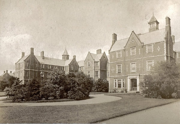 The main building at Winterton Hospital showing the male wards.